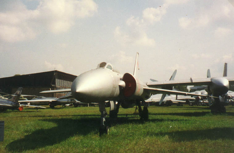 Lavochkin La-250 Anaconda interceptor prototype at Monino museum